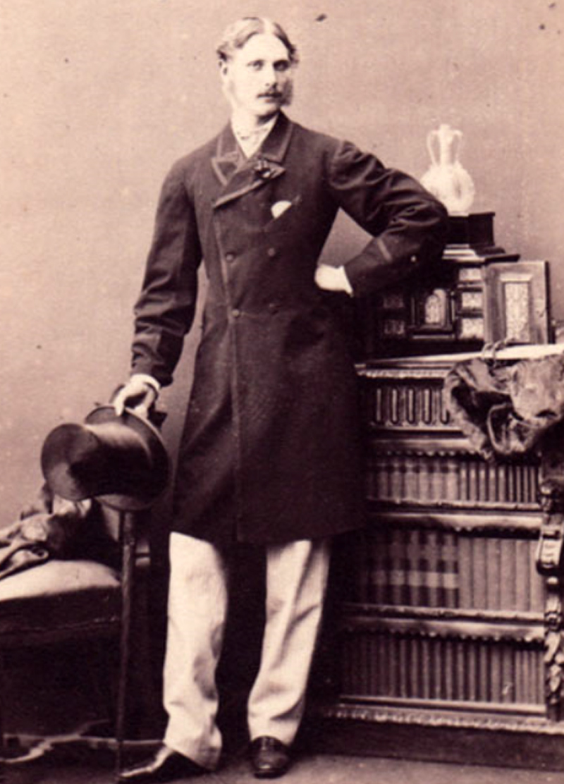 Willoughby Burrell, 5th Baron Gywdyr, resident of Belstead Lodge, Ipswich, Suffolk